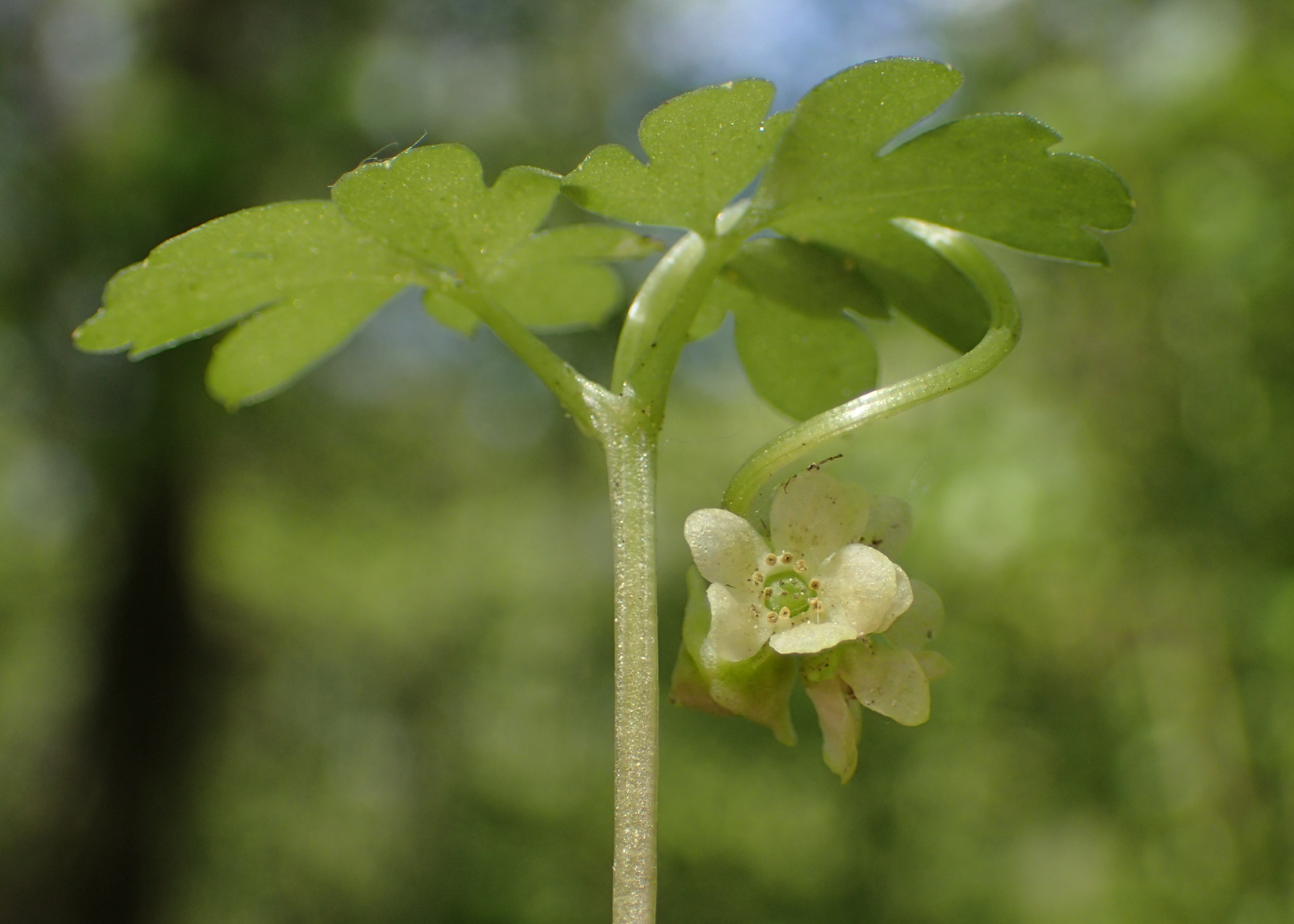 Adoxa moschatellina, after flowering infrutescence bends under leaf. Żabowo near Nowogard, NW Poland